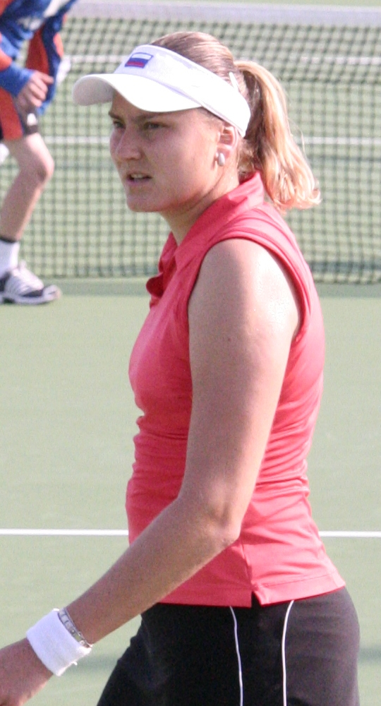 Nadia Petrova at her first-round match of the 2007 Australian Open.